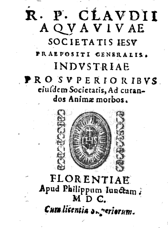 titlepage